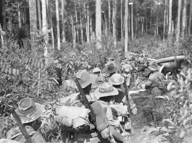 D Company of the Australian 2/3rd Pioneer Battalion on John's Track, Tarakan.